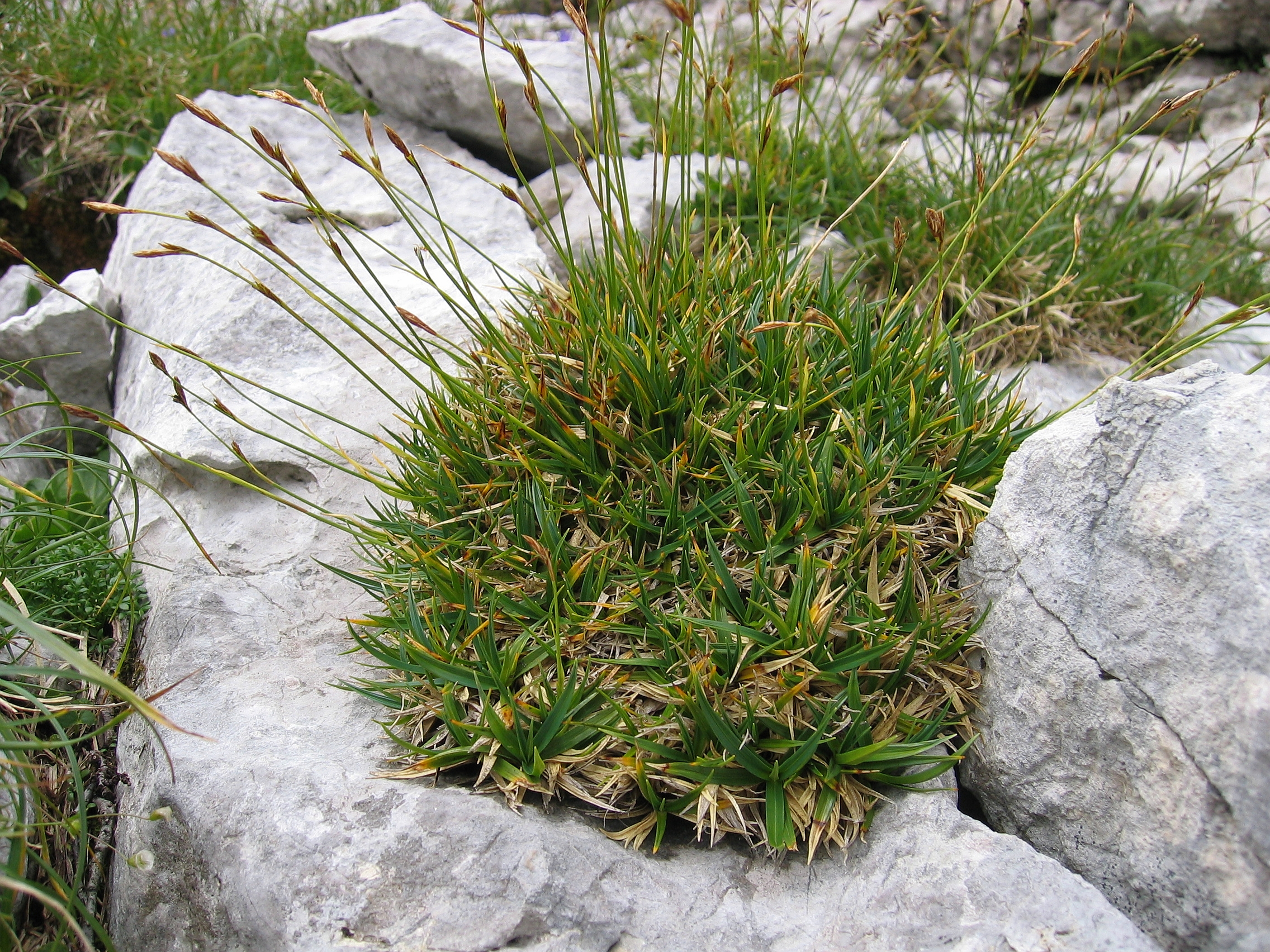 Carex firma, Warscheneck ~ 2100m, Austria